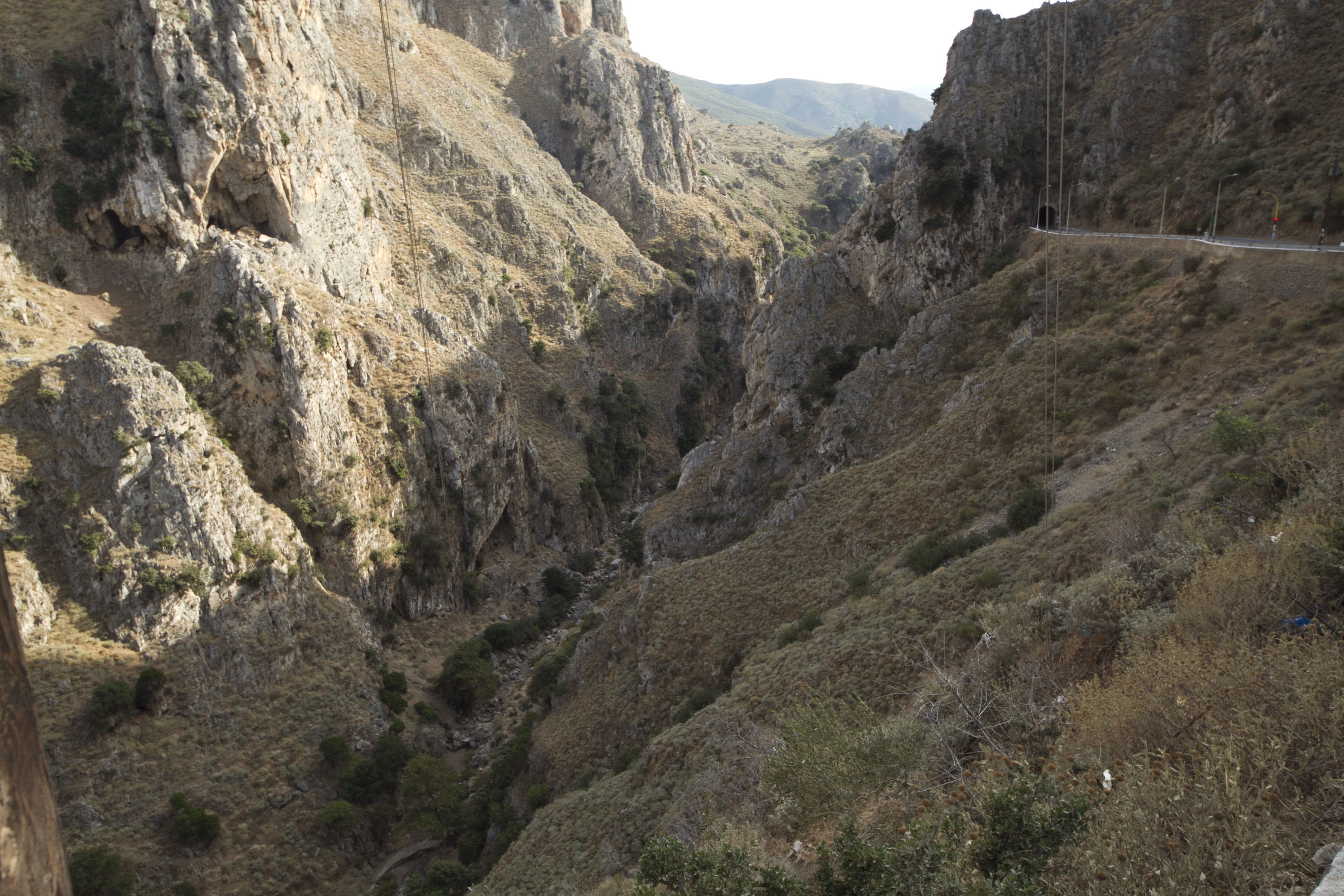 Mithimna, Greece